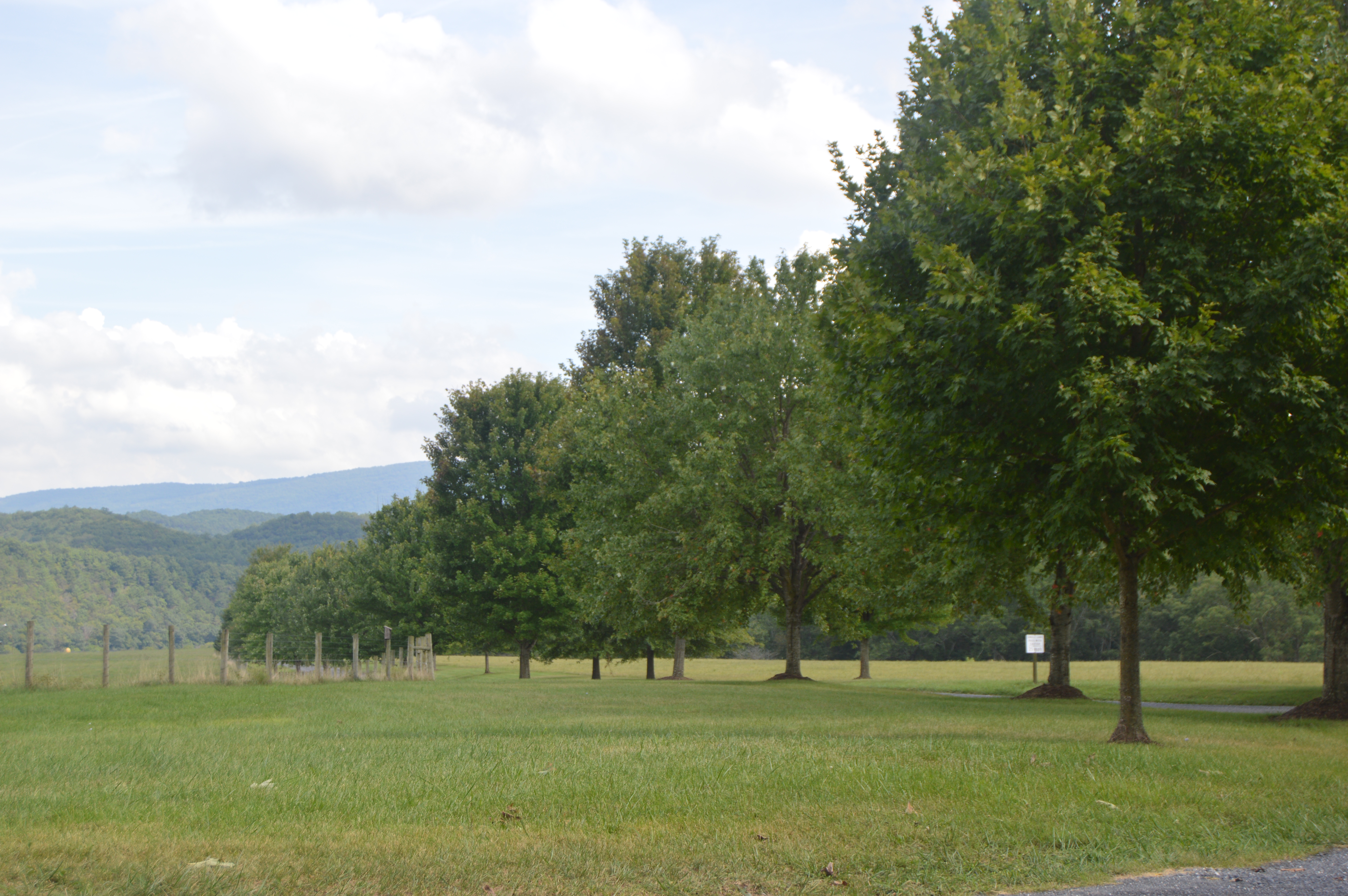 Driveway to Fort Lewis, located along River Road in the the Cowpasture River valley in northern Bath County, Virginia, United States. The property is listed on the National Register of Historic Places.